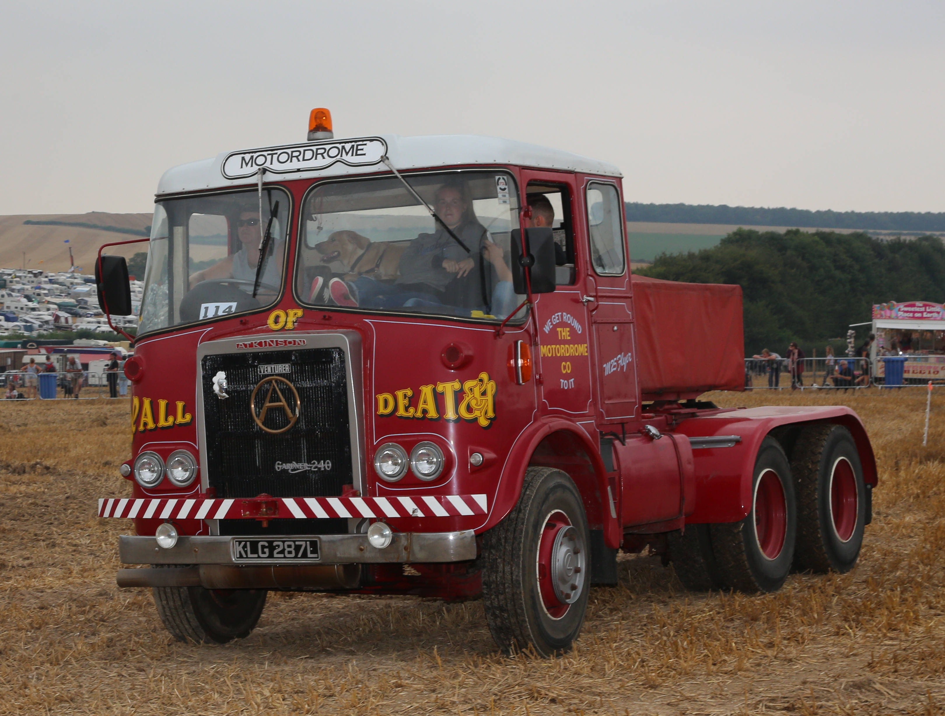 Photo of a 1972 Atkinson Venturer